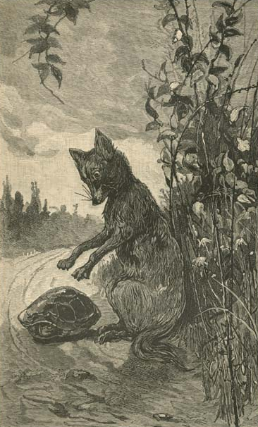 "Brer Fox Tackles Brer Tarrypin", from Uncle Remus, His Songs and His Sayings: The Folk-Lore of the Old Plantation, by Joel Chandler Harris, p. 60a. Illustrations by Frederick S. Church and James H. Moser. New York: D. Appleton and Company, 1881.